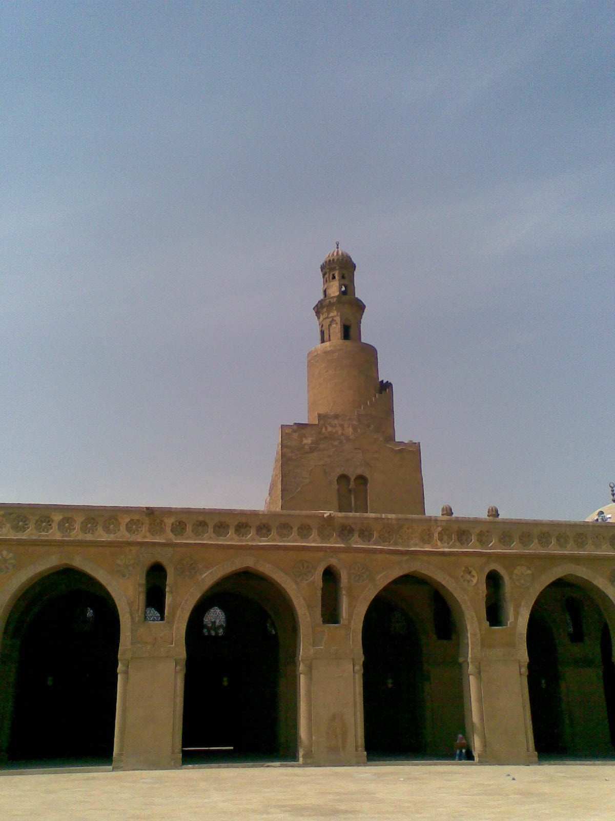 Ibn Tulun mosque minaret in Cairo, Egypt. Photo taken by me